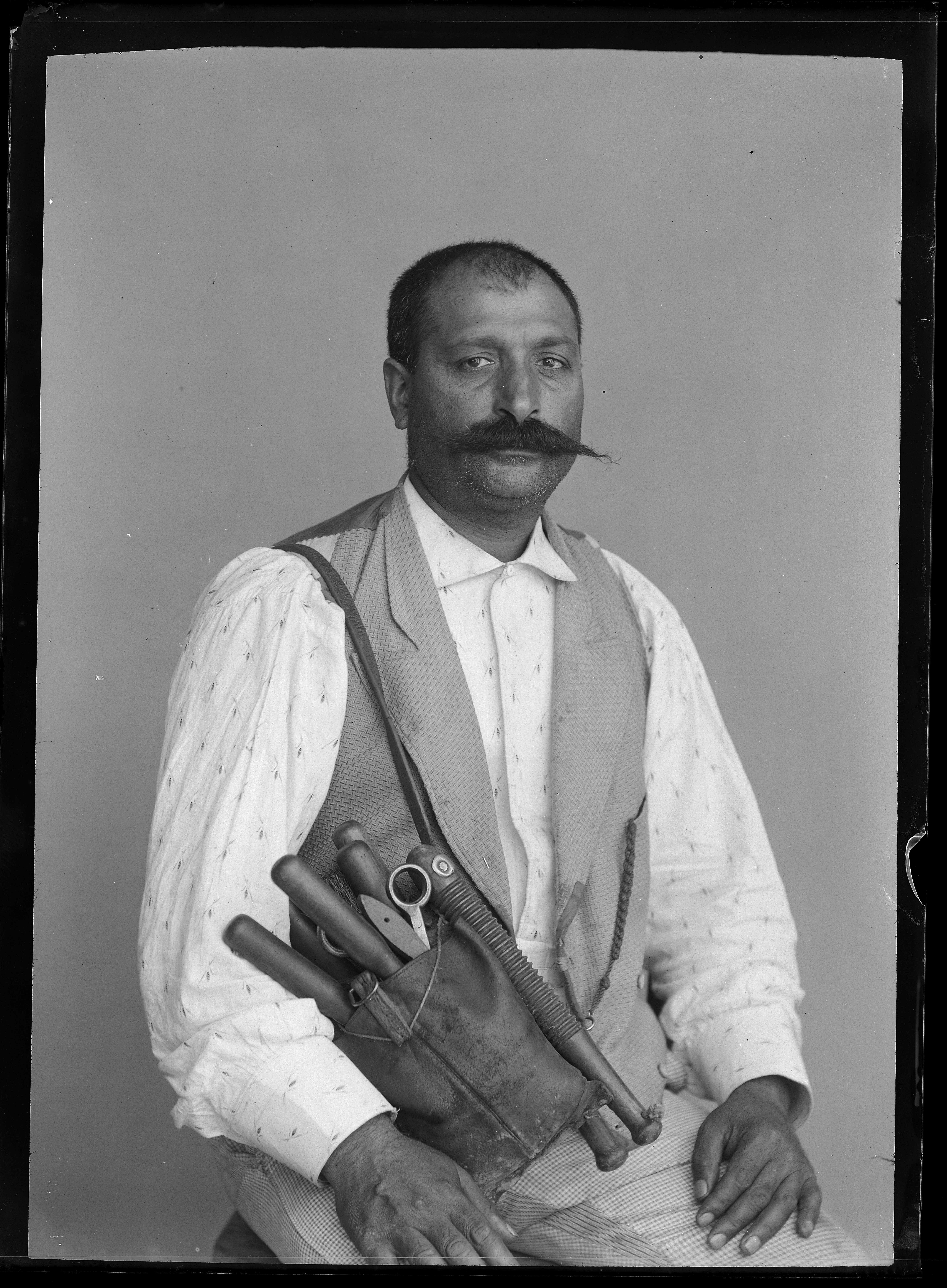 Espinasse, the father, gipsy from St Cyprien. Espinasse is an occitan name coming from espina, meaning « épine » (thorn).